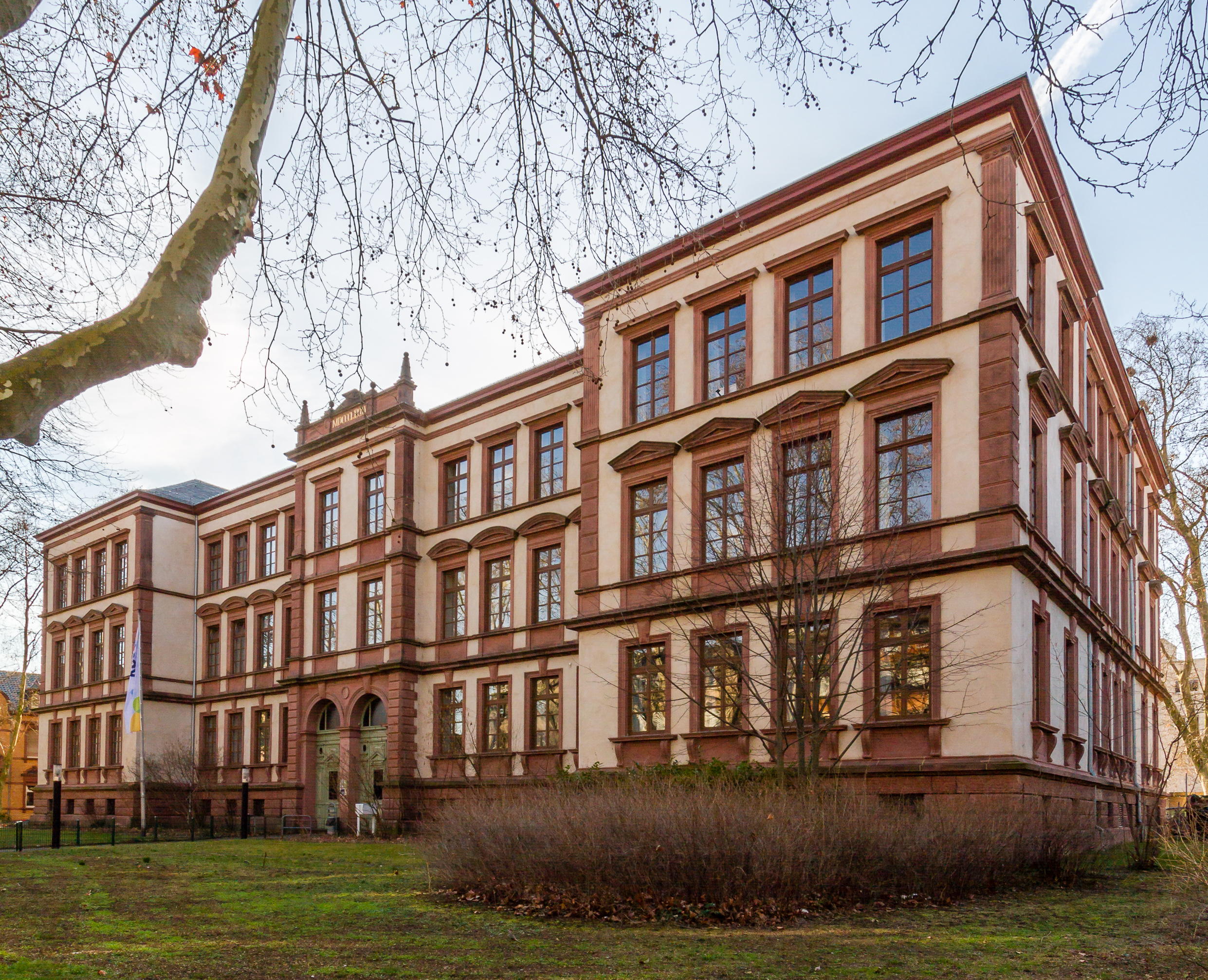 This is a photograph of an architectural monument.It is on the list of cultural monuments of Neustadt an der Weinstraße (Kernstadt) Designation: Schoolhouse Location: Hindenburgstraße House number: 14 Place: Neustadt an der Weinstraße, Rhineland-Palatinate, Federal Republic of Germany Construction time: designated 1884 Description: Magnificent Wilhelminian three-wing building. Neo-renaisance motifs, architect Matthias Lichtenberger. Today adult education centre.